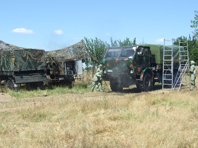 Romanian NBC decontamination troops during Getica 2008 military exercise.